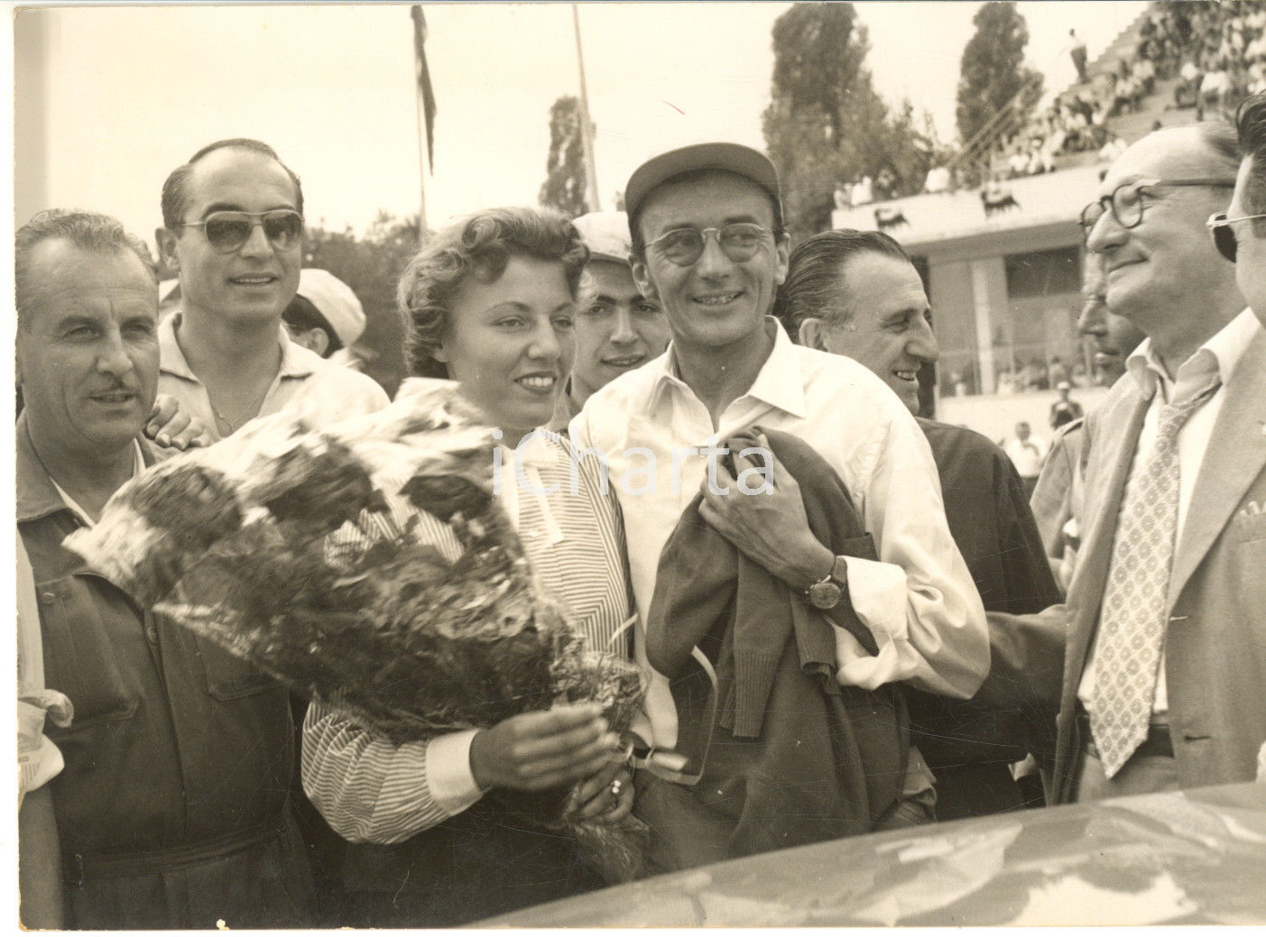 Elio Zagato (center, jacket in hand) won Coppa Intereuropa at Monza on 11 September 1954, driving a Fiat 8V.[1] His father Ugo Zagato at right (with glasses).